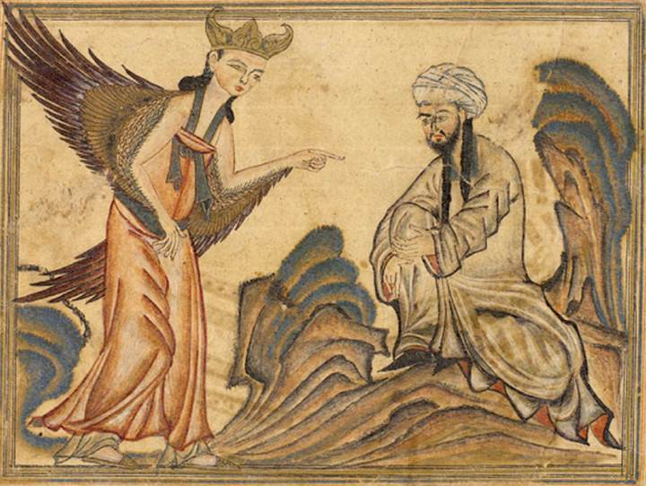 Mohammed receiving his first revelation from the angel Gabriel. Miniature illustration on vellum from the book Jami' al-Tawarikh (literally "Compendium of Chronicles" but often referred to as The Universal History or History of the World), by Rashid al-Din, published in Tabriz, Persia, 1307 CE Now in the collection of the Edinburgh University Library, Scotland.